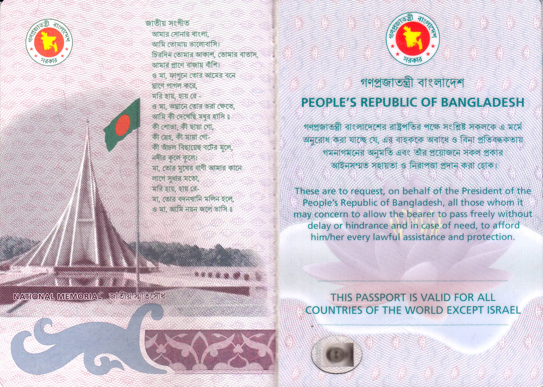 The information page of Bangladesh passport that indicates countries valid to travel.